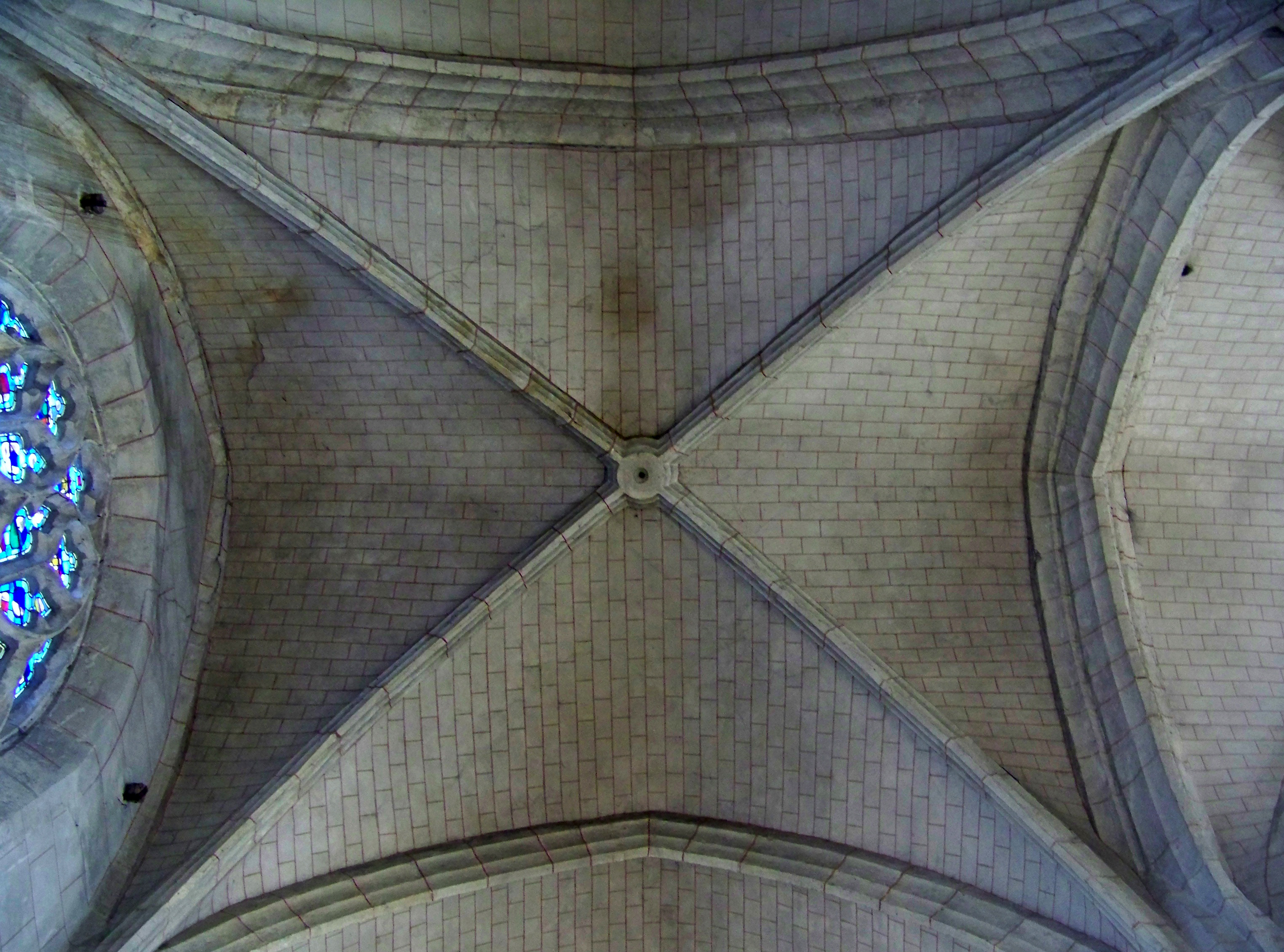 Vaults of the northern bay of the church Saint-Pierre Saint-Paul in Ablis, Yvelines, France.